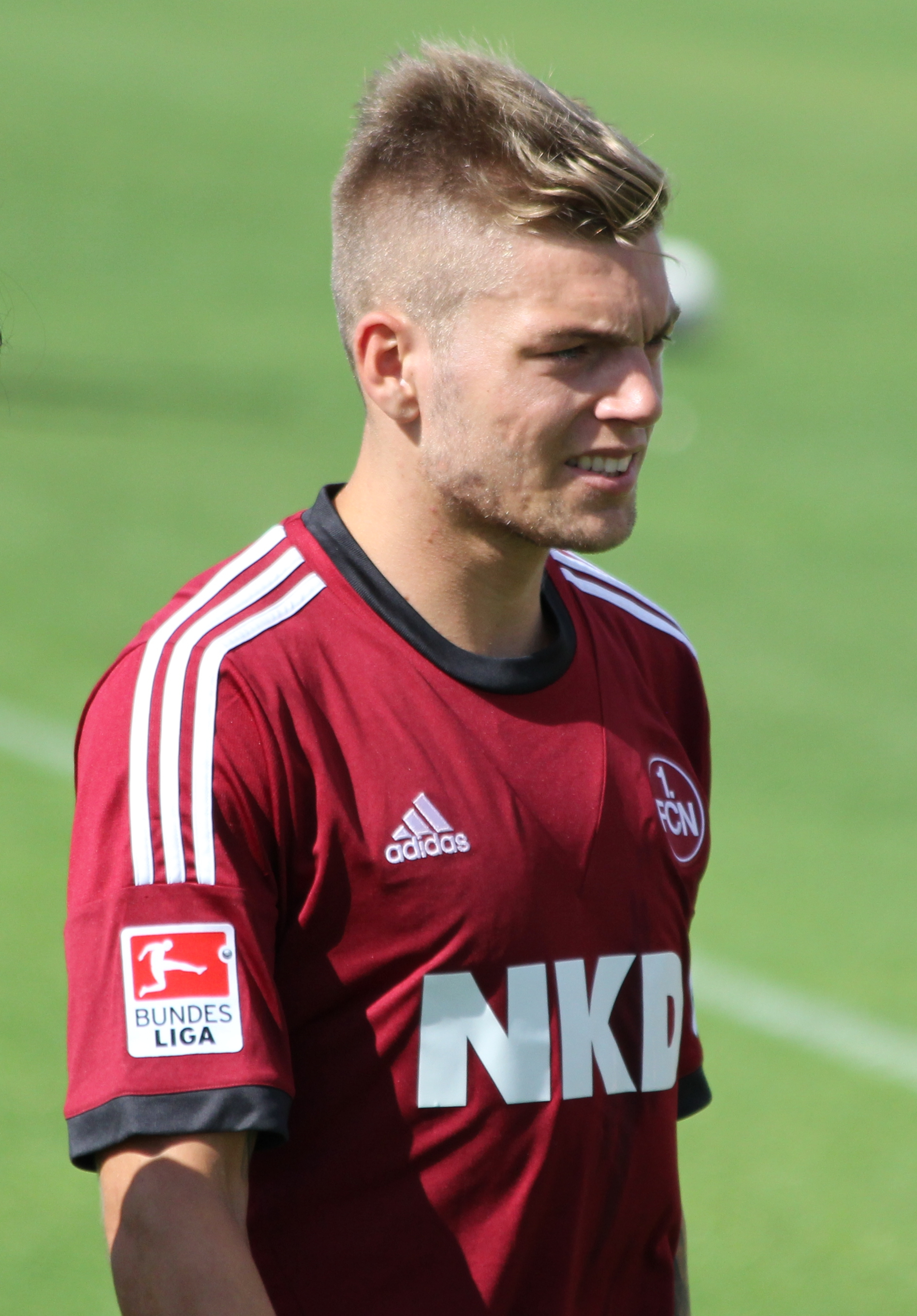 Alexander Esswein, football player for German side 1. FC Nürnberg, 2013/14 season, Trainingsauftakt